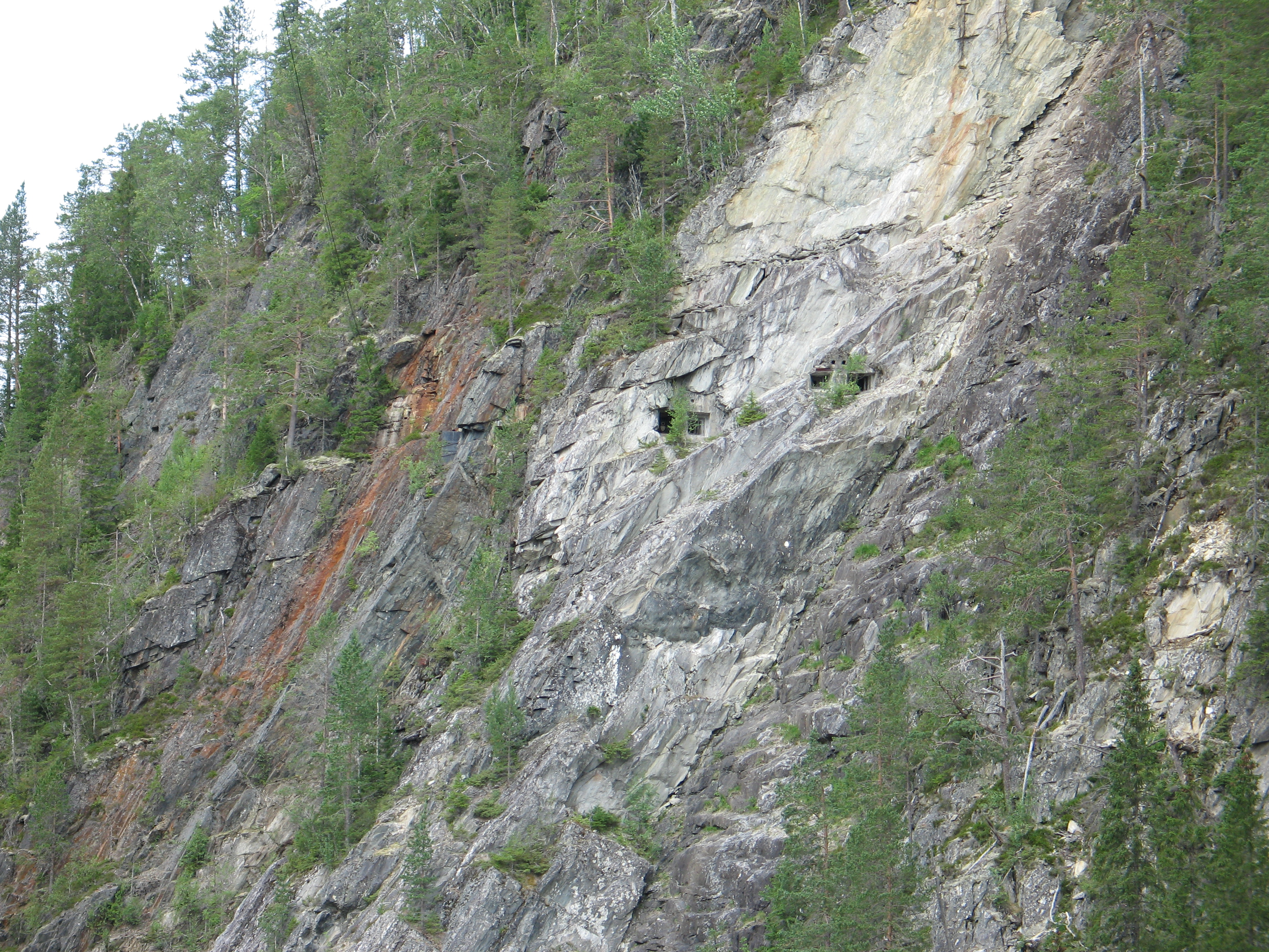 The North Galleries cannon openings, high up in the mountainside. Location: Verdal, Norway.